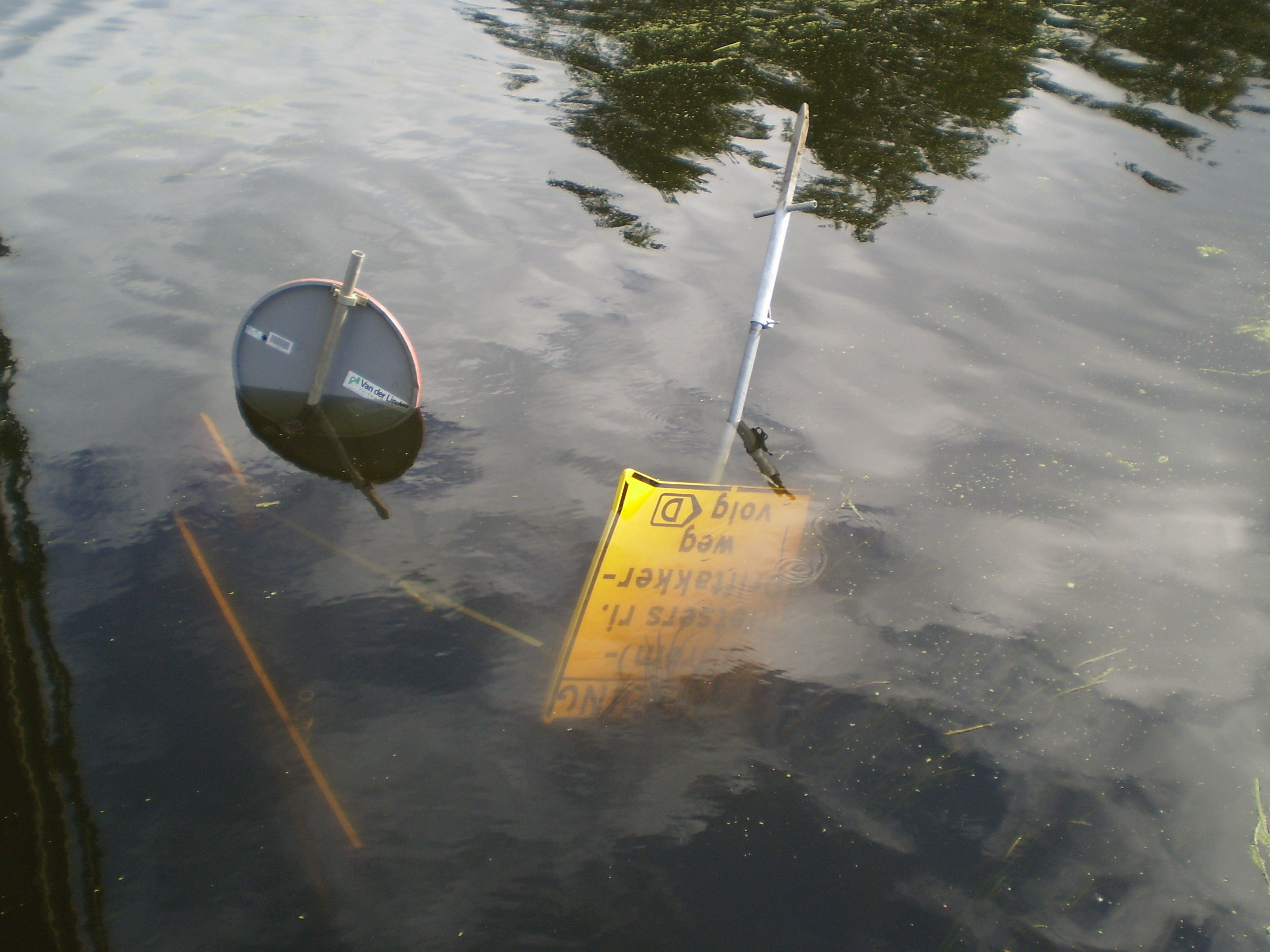 Road signs thrown into the Valleikanaal, Leusden